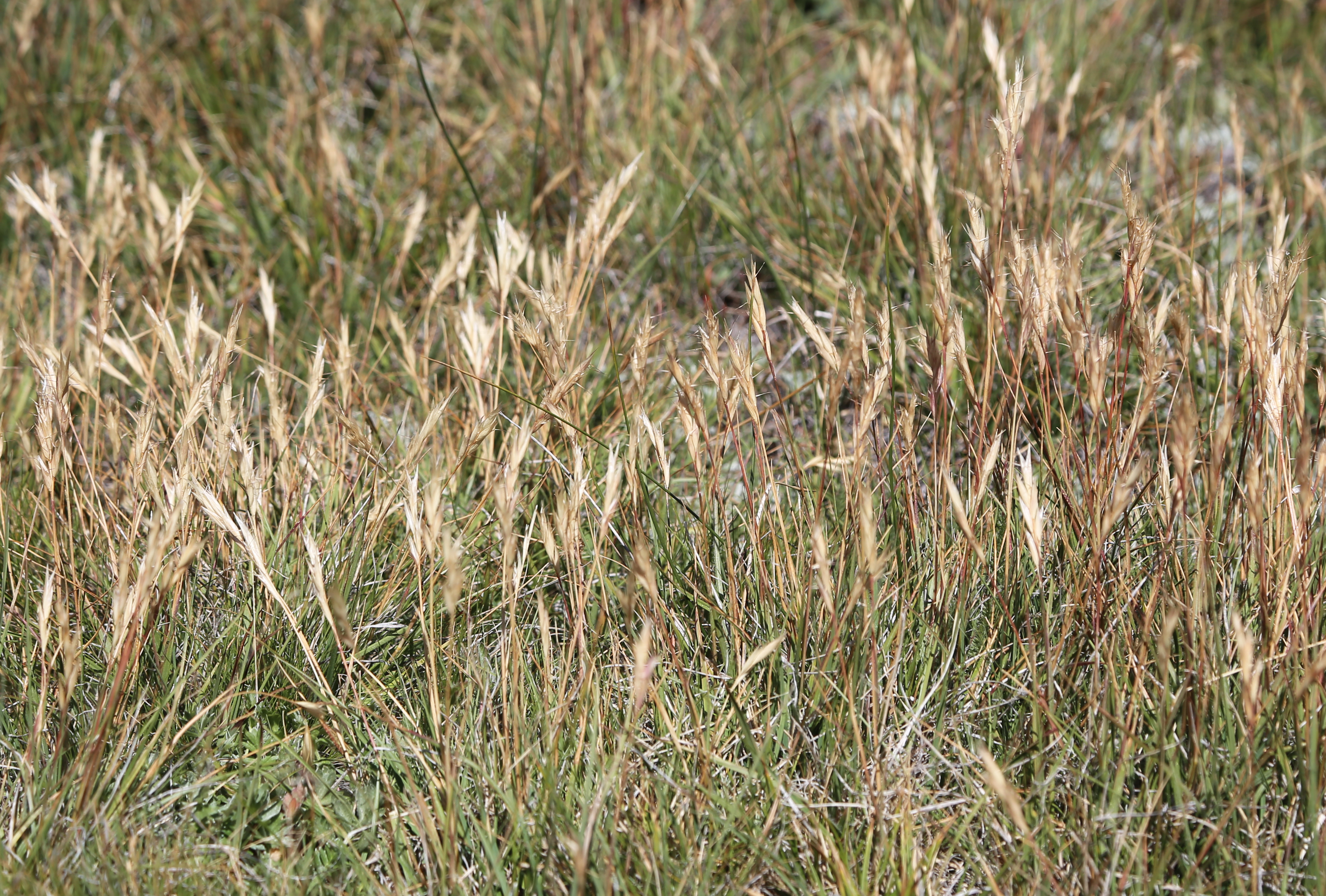 Mountain wild-oat grass (Danthonia intermedia) near trailhead into Little Lakes Valley, John Muir Wilderness, Sierra Navada USA.